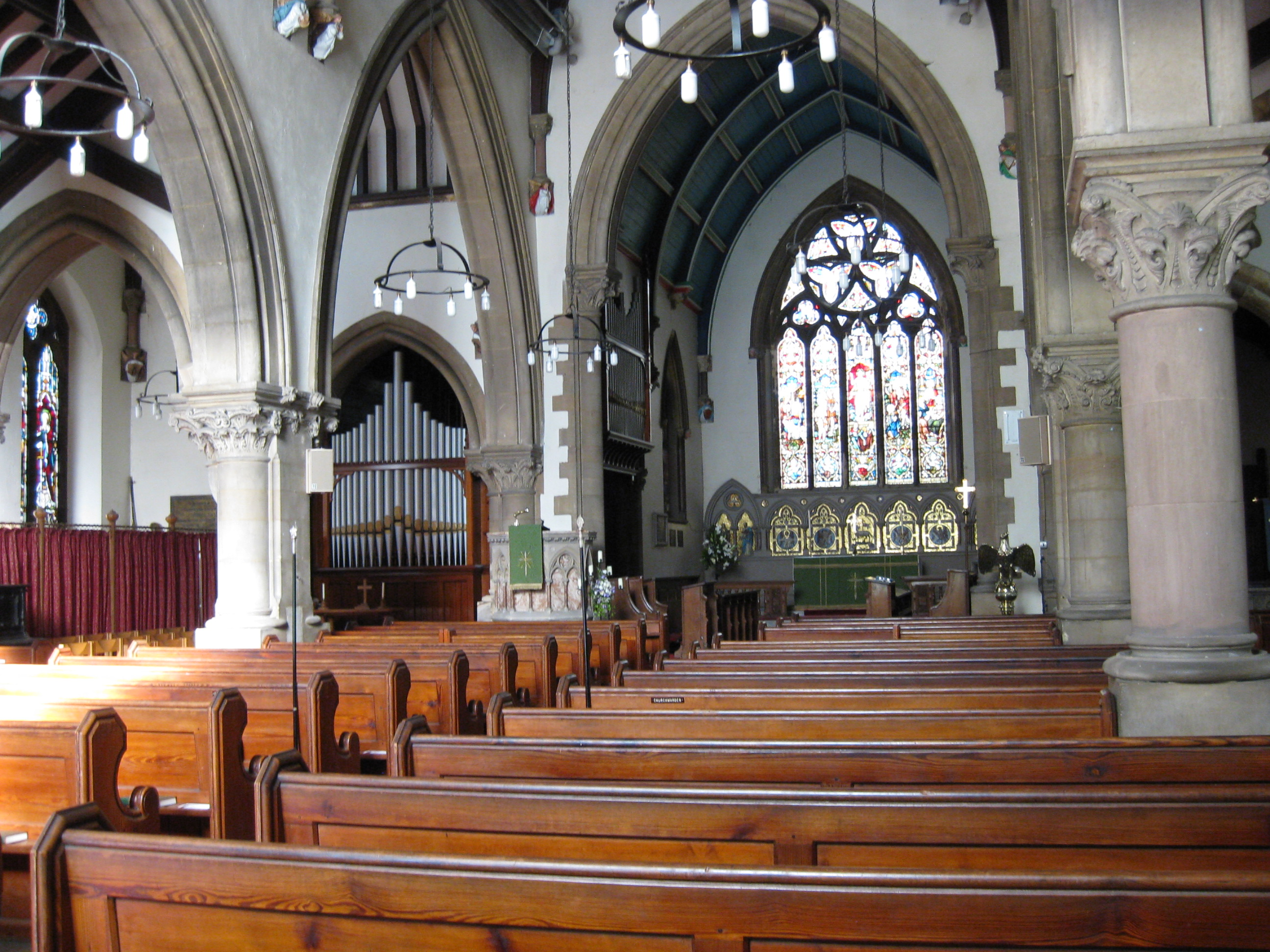 Inside St Oswald's parish church, Fulford, North Yorkshire, showing pews, organ, chancel and stained glass east window